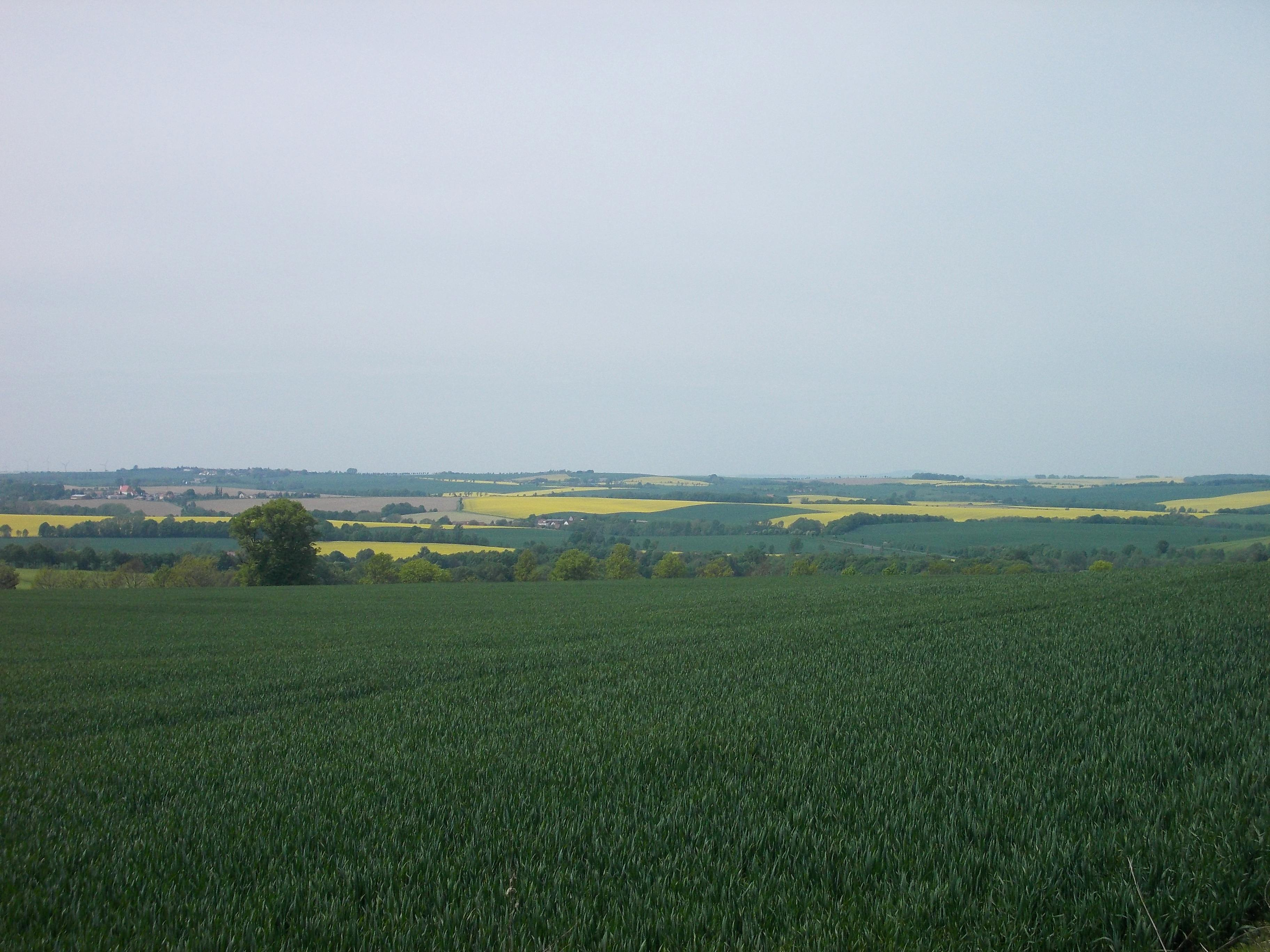 View from Radewitz Hill (Nossen, Meissen district, Saxony)